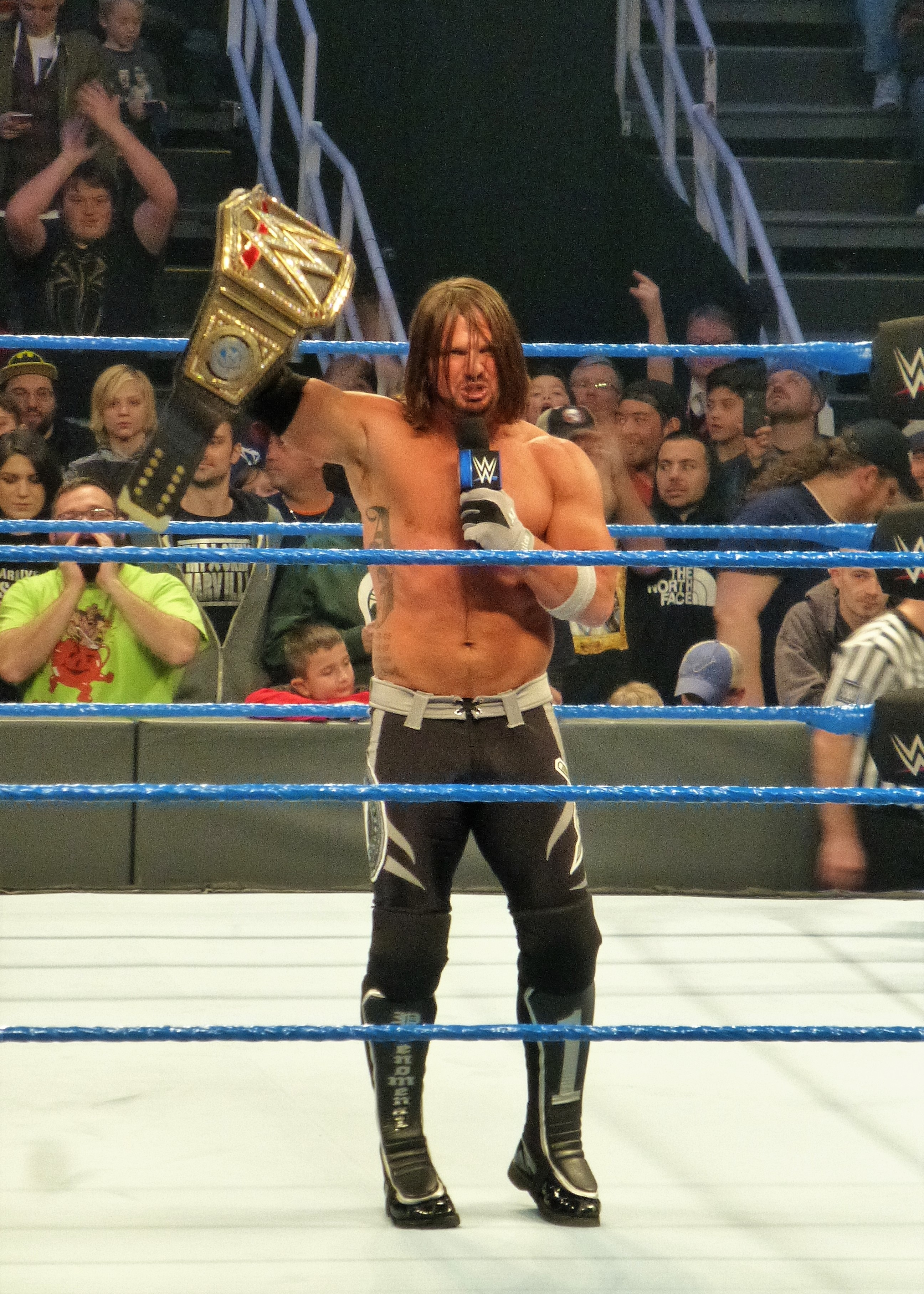 AJ Styles styling